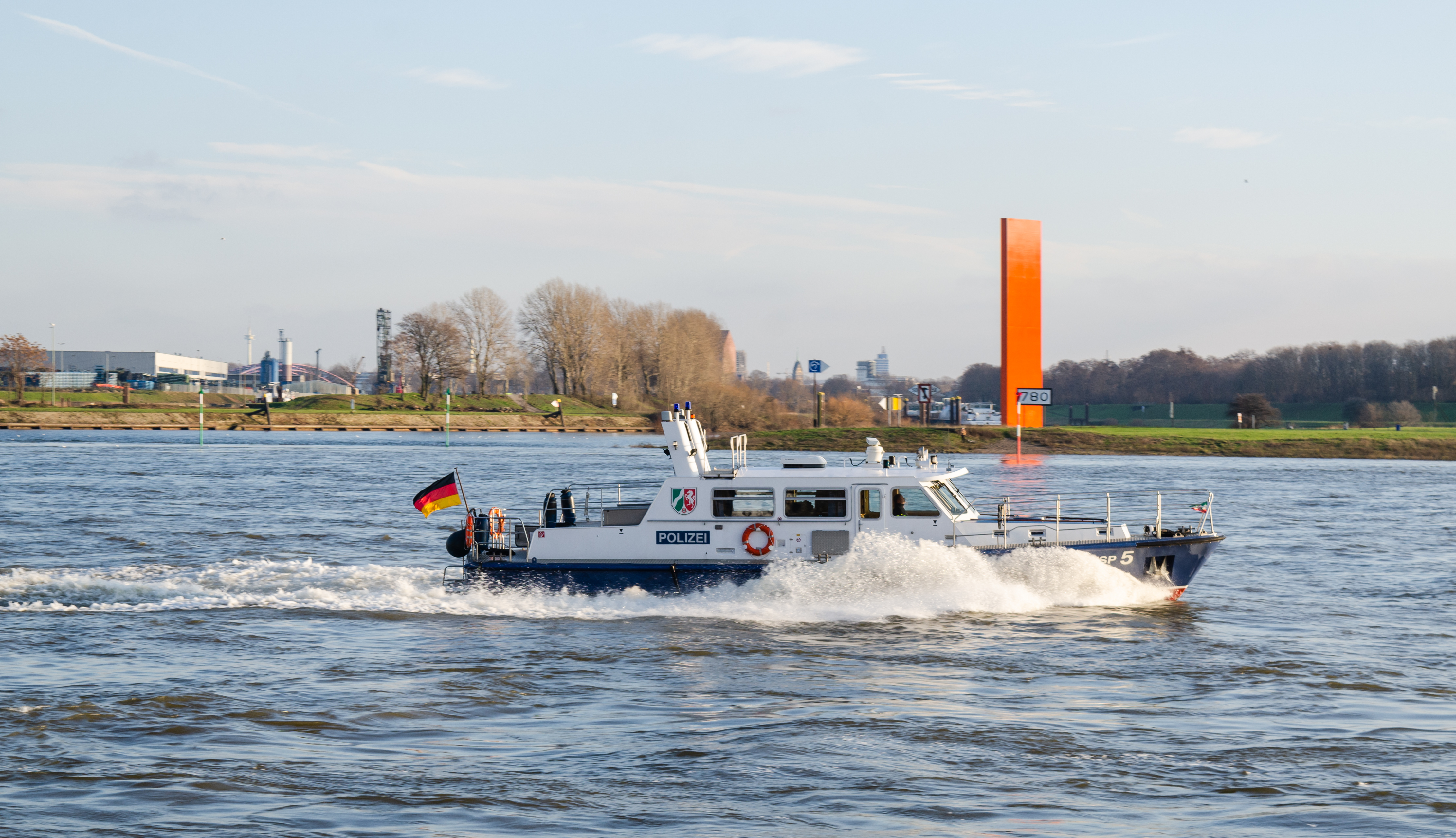 Duisburg (North Rhine-Westphalia, Germany) – police boat “WSP 5” (MMSI: 211665610) on the Rhine in front of the sculpture “Rheinorange”